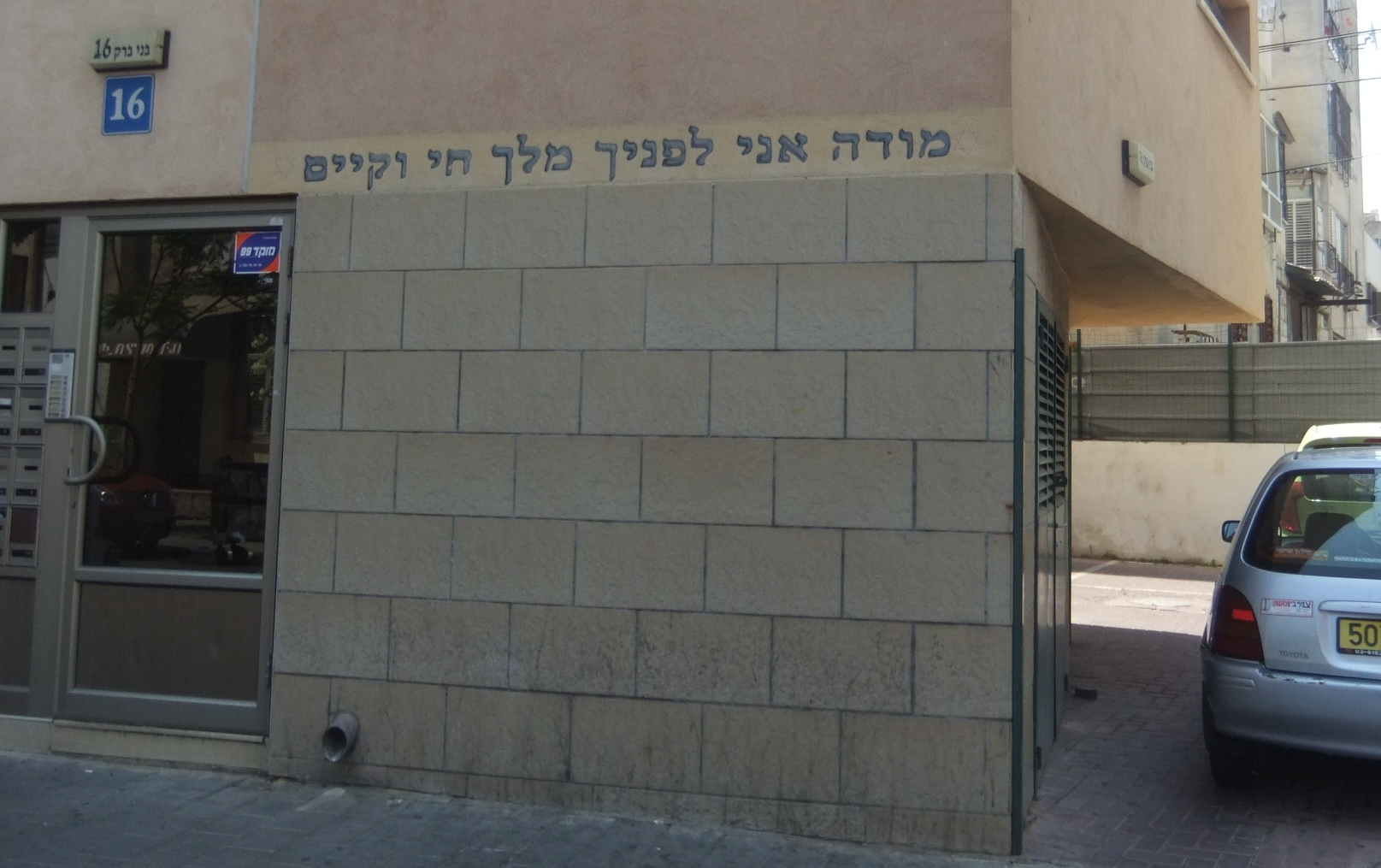 The Jewish prayer "Mode Ani" on a house on Bnei Brak street in Tel Aviv